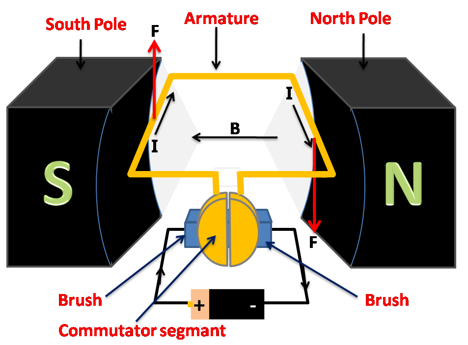 Electric motor working process diagram